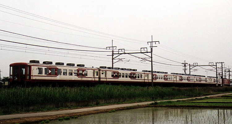 PC12 passenger car based resort train "Fureai Michinoku". 12系改造JT、｢ふれあいみちのく｣。東大宮-栗橋間にて。